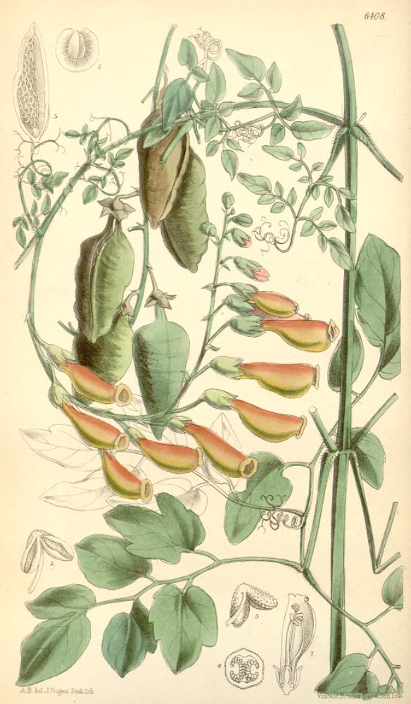 Illustration of Eccremocarpus scaber